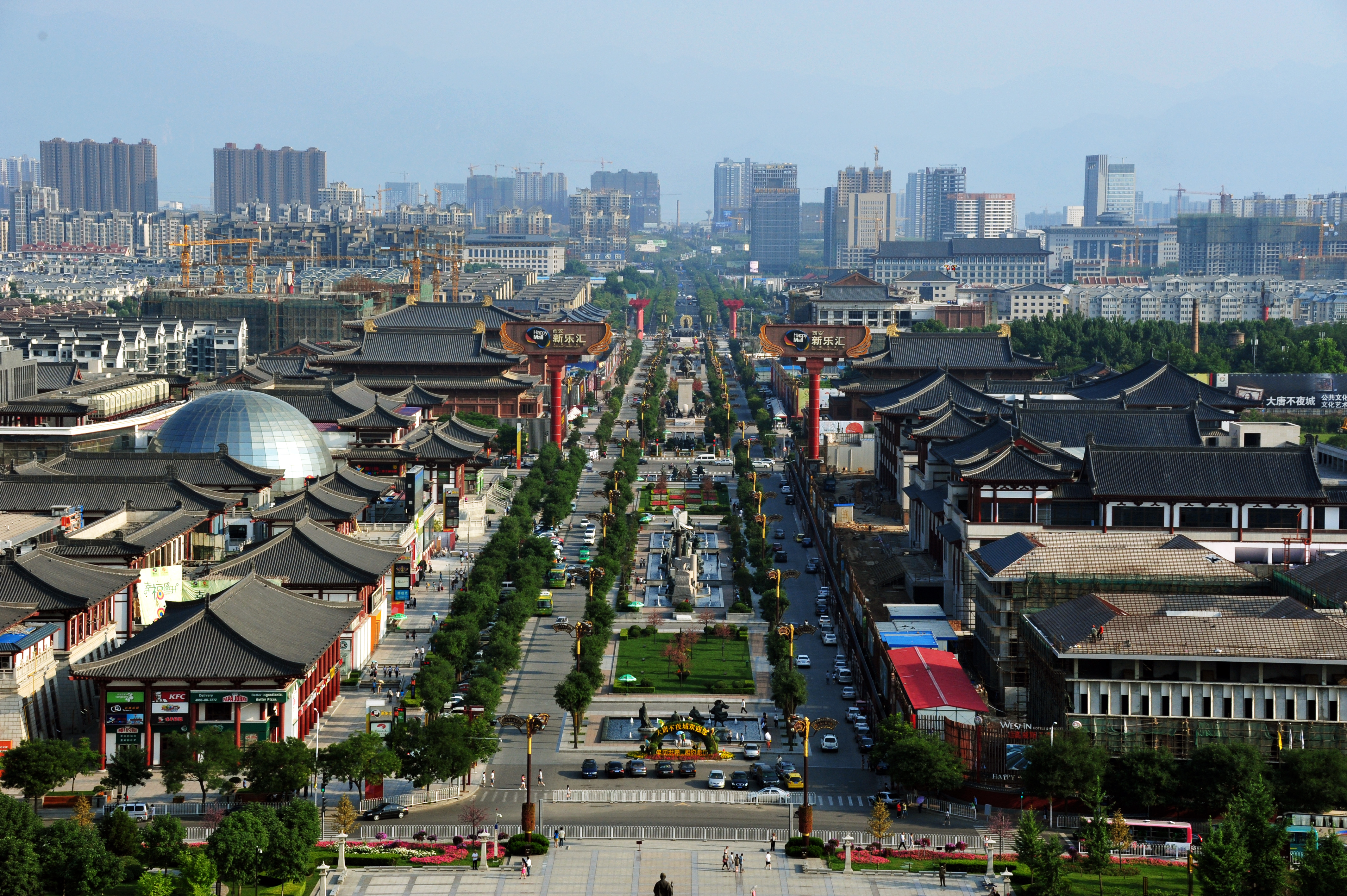 xi'an xian china shanxi giant wild goose pagoda view 2011 day